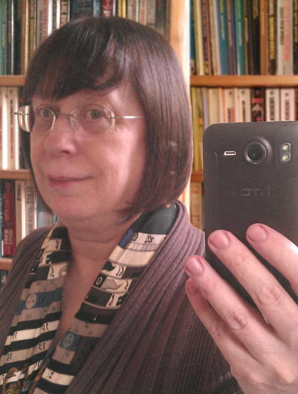 An image of the author with smartphone.